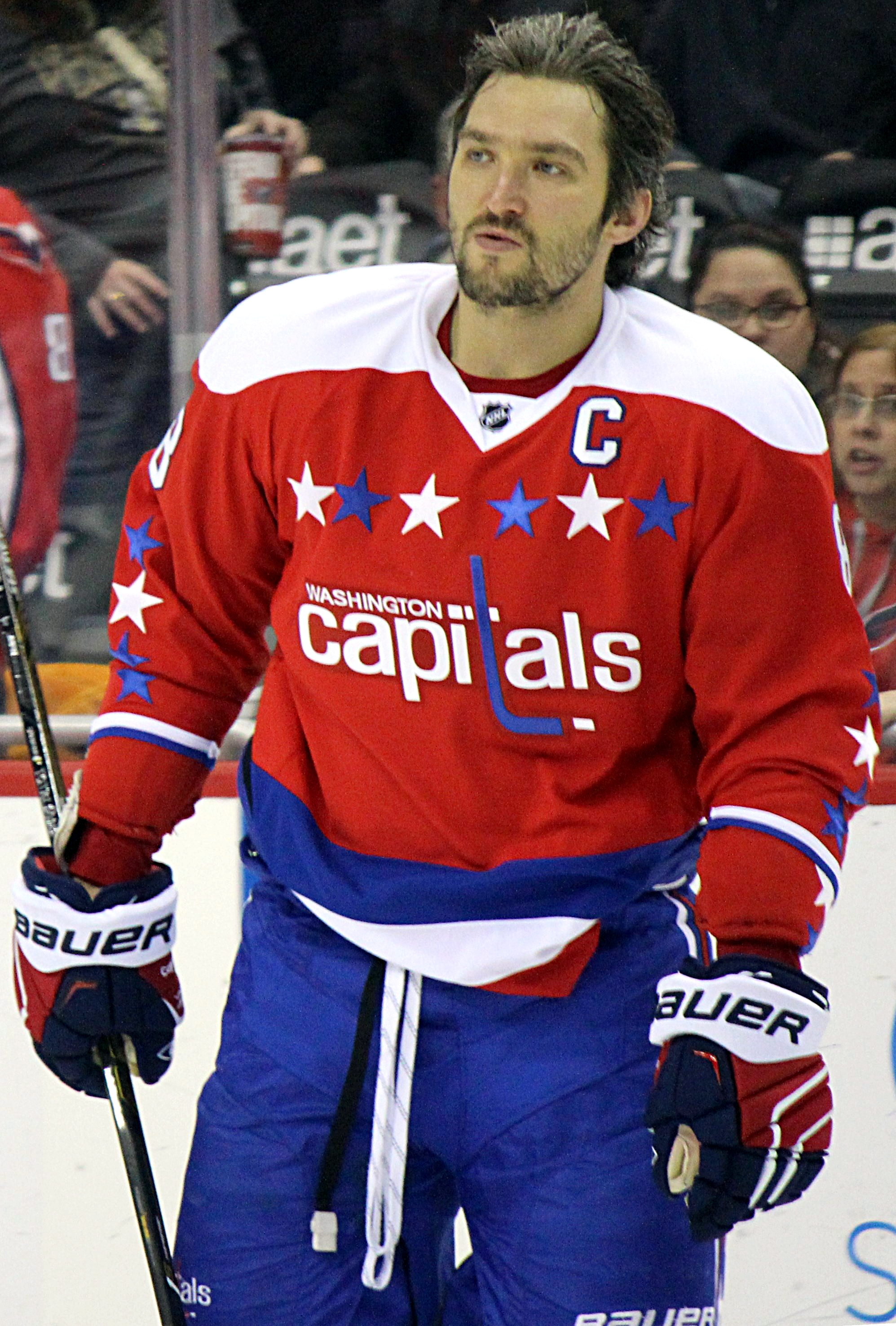 Washington Capitals captain Alexander Ovechkin warms up prior to a game against the Pittsburgh Penguins, March 1, 2016, at Verizon Center in Washington, D.C.